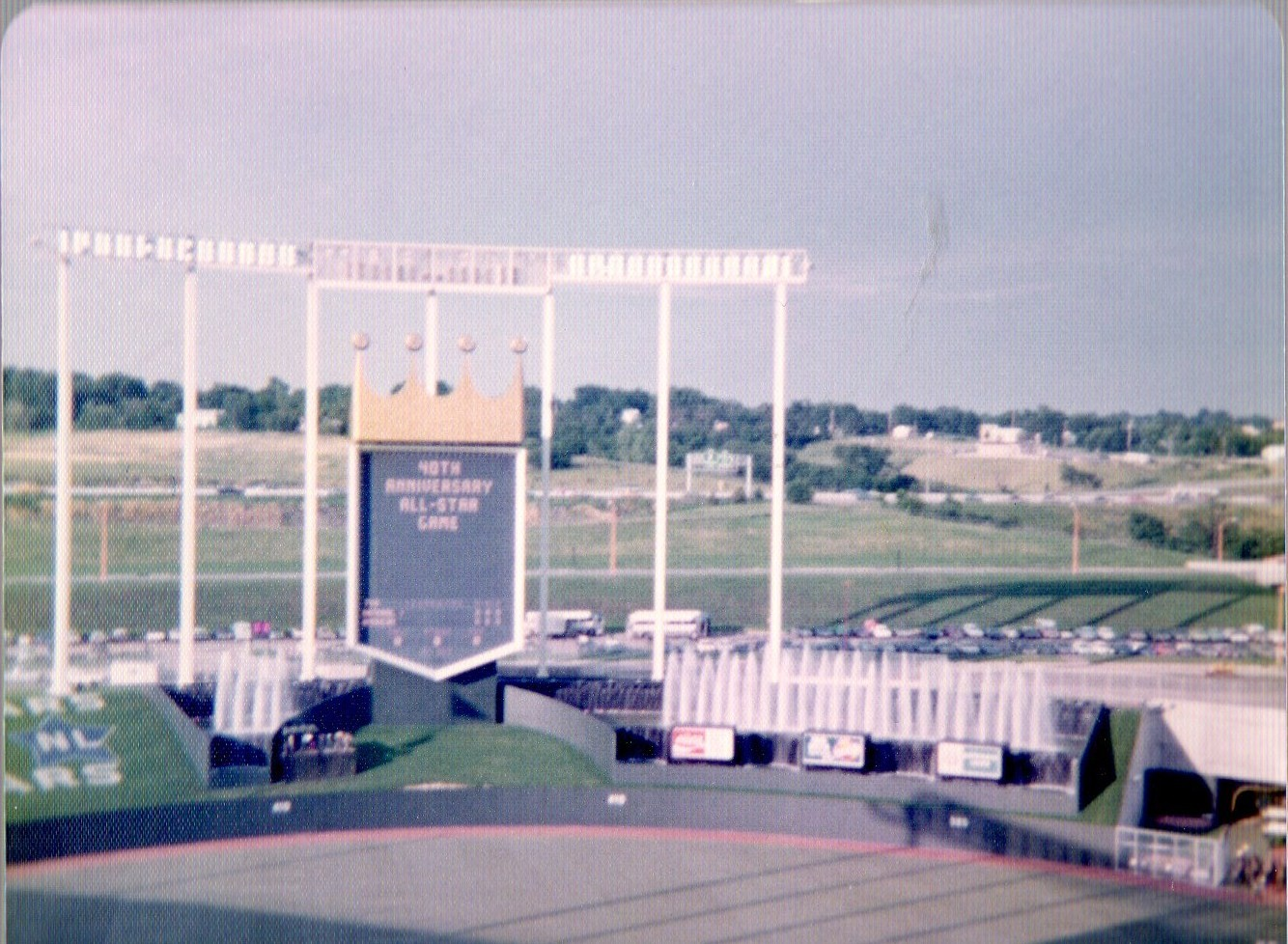 My parents were lucky enough to go to the Major League Baseball All Star Game in 1973. This was the only picture they took. Royals Stadium had only been open a few months when the game took place.